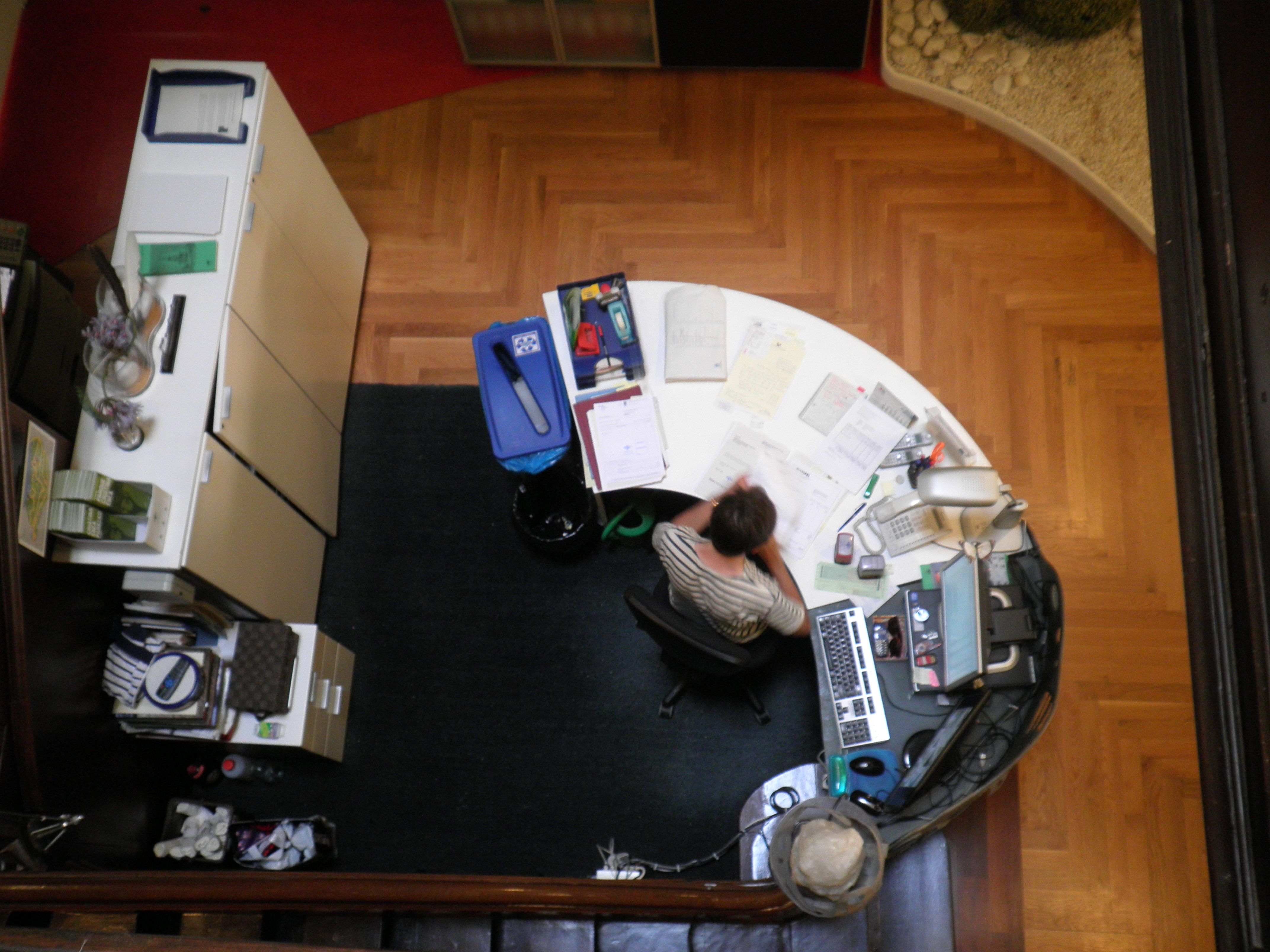 Krisitnaenea park office in Donostia.